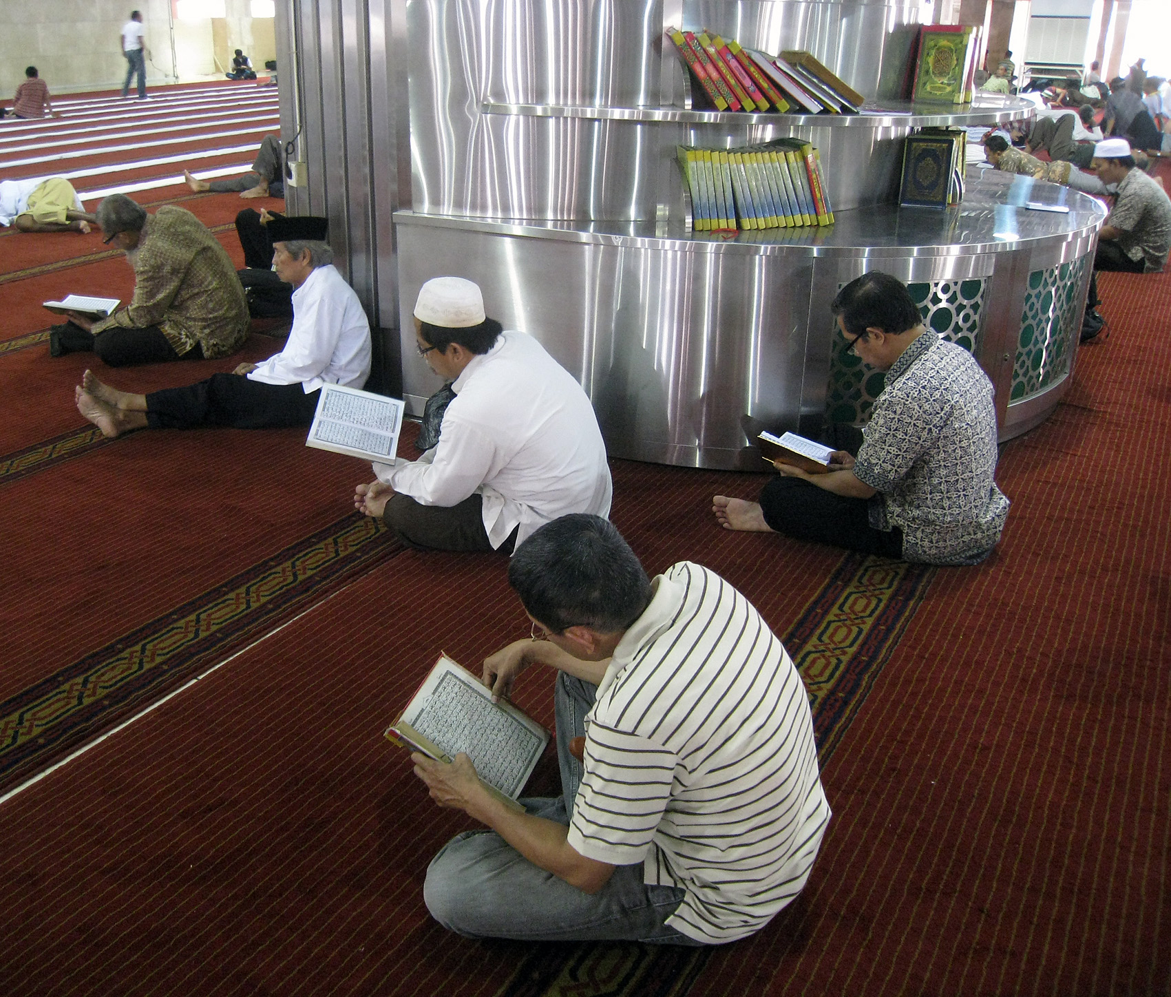 Indonesian muslims reciting Al Quran after shalat (prayer). Istiqlal Mosque, Central Jakarta, Indonesia. Indonesia has the largest number of muslim population in the world.